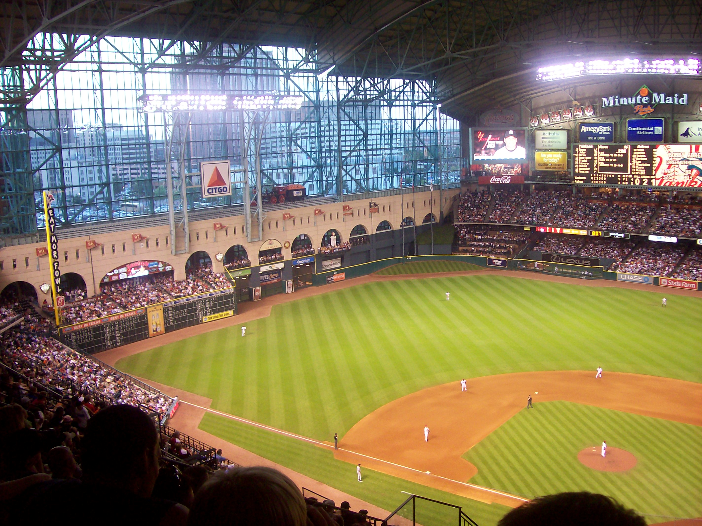 A view of Minute Maid Park's Crawford Boxes, Tal's Hil, and part of the Houston Skyline.